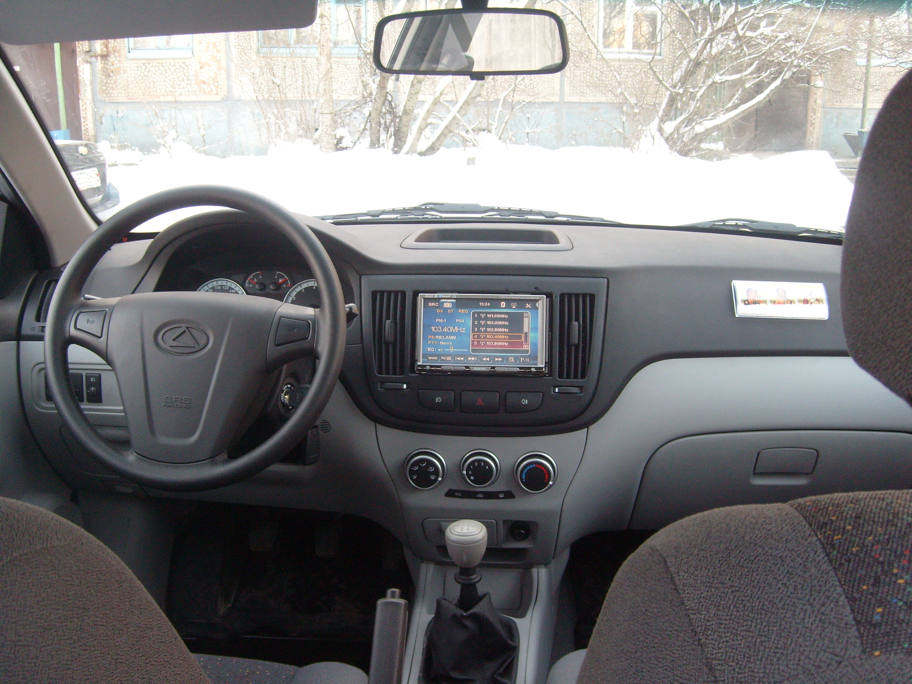 Tagaz Vega int